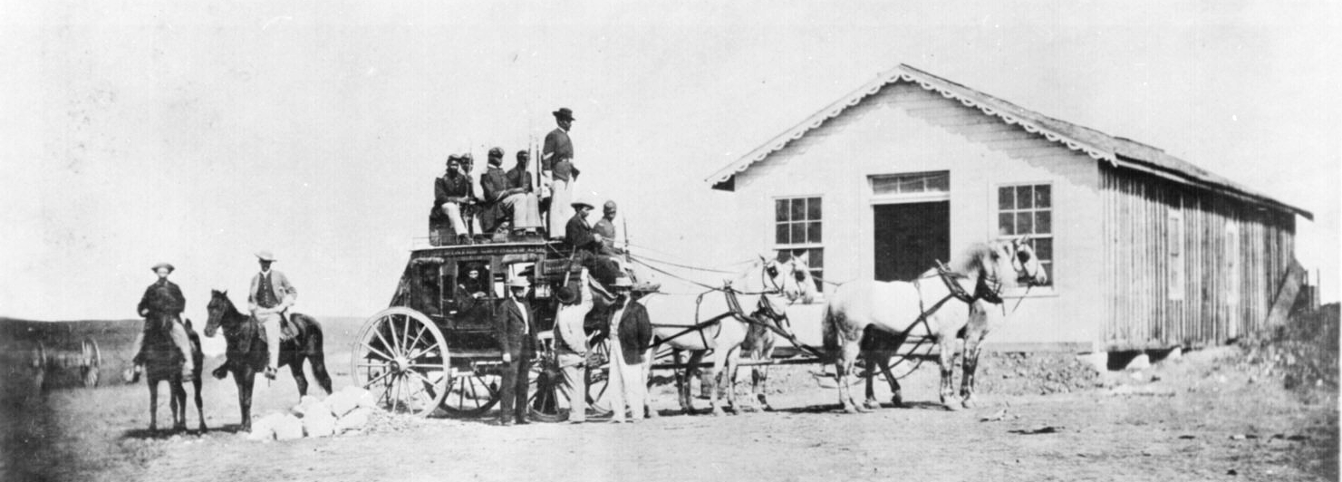 Concord stagecoach in the American West, ca. 1869. Source: Photographs of the American West: 1861-1912 US National Archives & Records Administration Caption: "Typical stage of the Concord type used by express companies on the overland trails. Soldiers guard from atop, ca. 1869." Area: 1481x532 pix; top and bottom cropped from original. Size: 442 kb. Status: Sample digital images found in the course of ARC searches are in the public domain and may be downloaded by the researcher without charge (from NARA site).